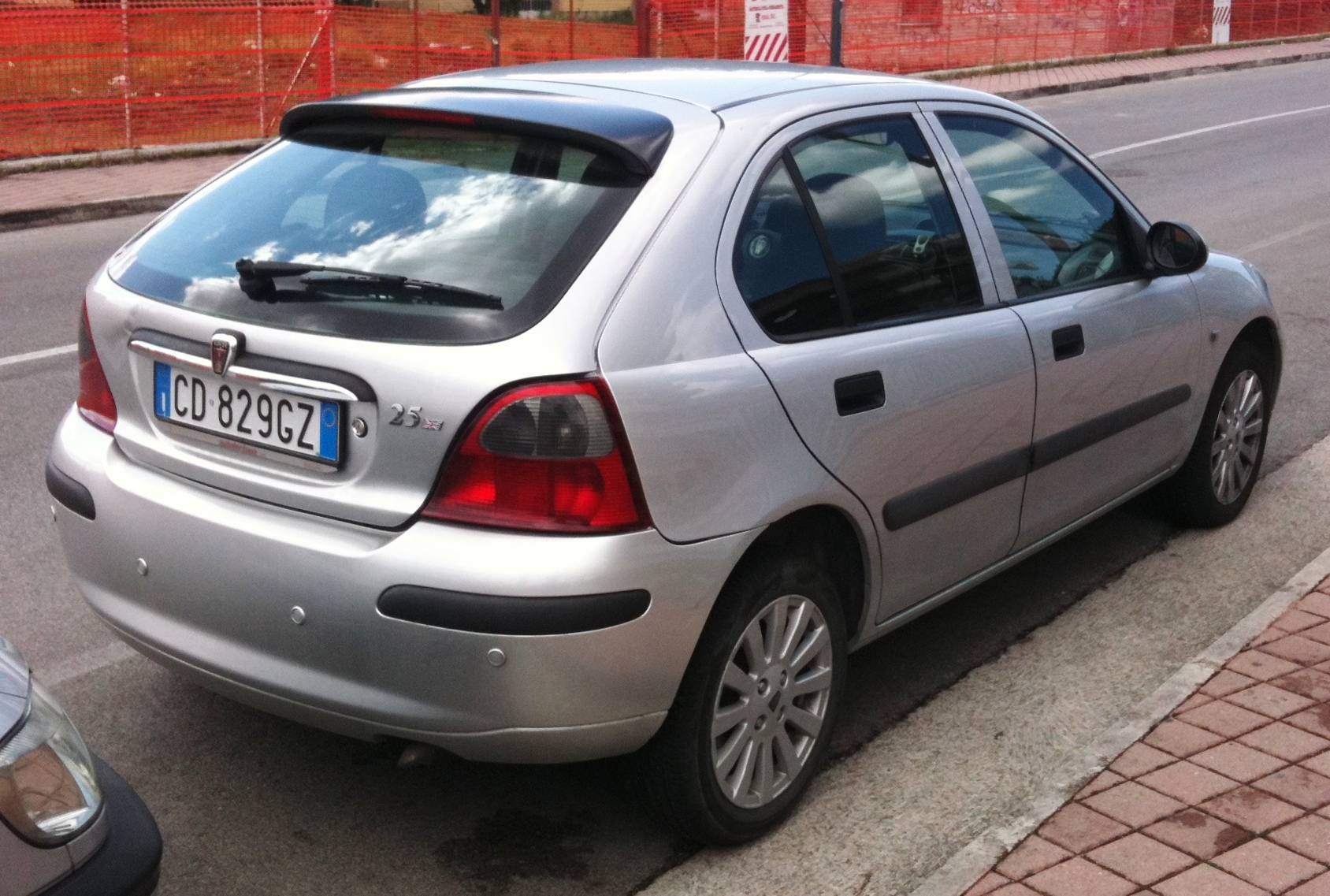 Rover 25 5-door rear in Avellino